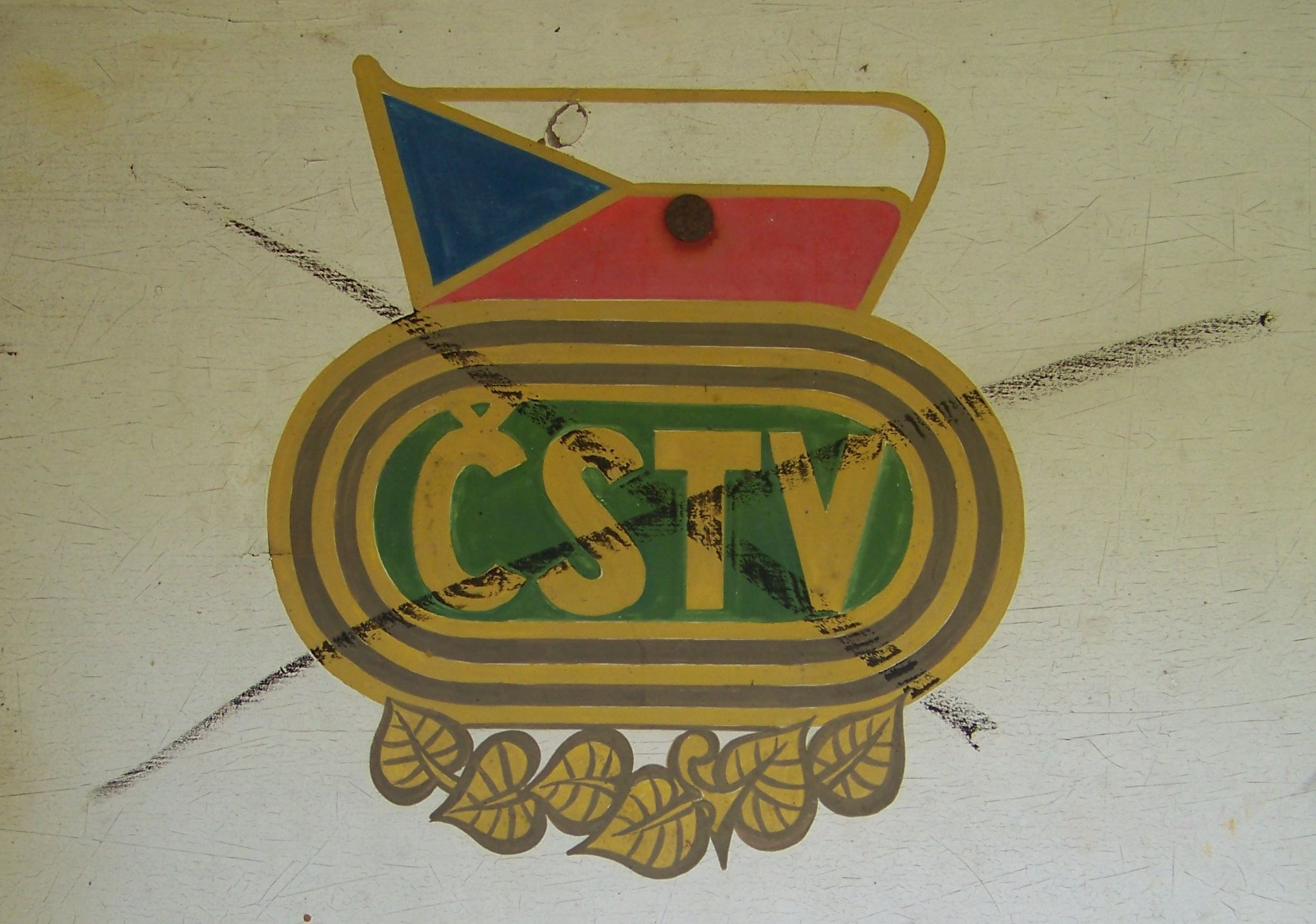 Malšice-Příběnice, Tábor District, South Bohemian Region, the Czech Republic. A board about Příběnice Castle, a logo of ČSTV. - Google Maps - Google Earth